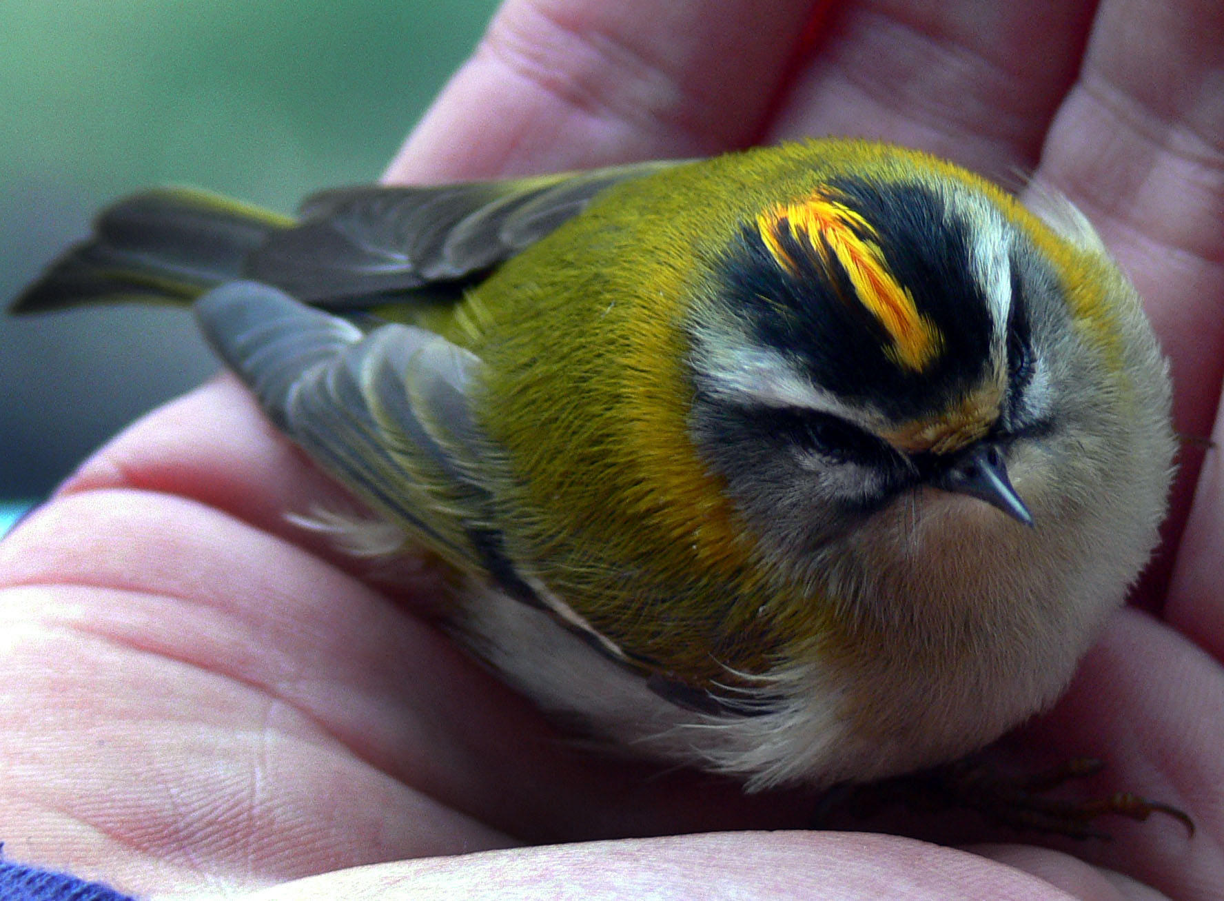 A temporarily stunned (and perhaps chilled) Common Firecrest in Lille, France. It was found on a pavement at the foot of a tall building after a cool night. It flew away after it warmed up. Maybe it had hit a window or a car.